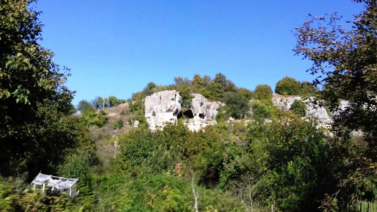 Rock hills and caves near Kamenovo, Razgrad province